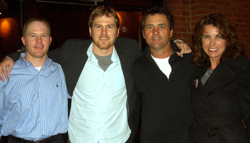 Jeff Sorem, Tommy Haines, Neal Broten and Sally Broten